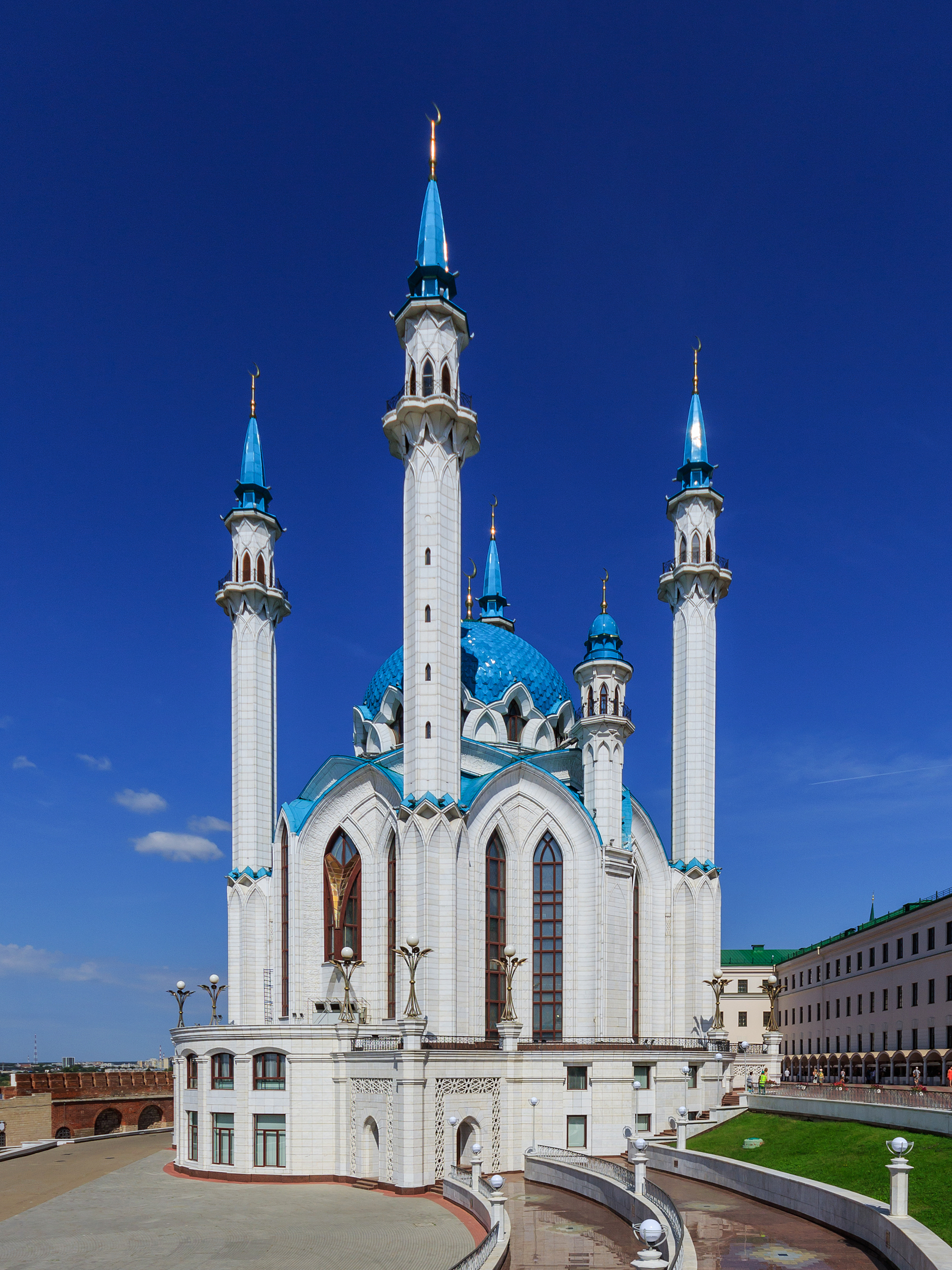 Qolsharif Mosque in the Kremlin in Kazan, Russia